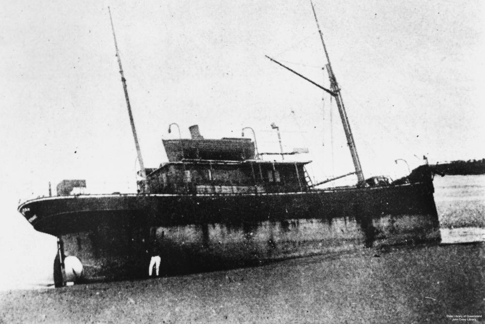 Wreck of the ship Dicky ion the beach at Caloundra, Queensland